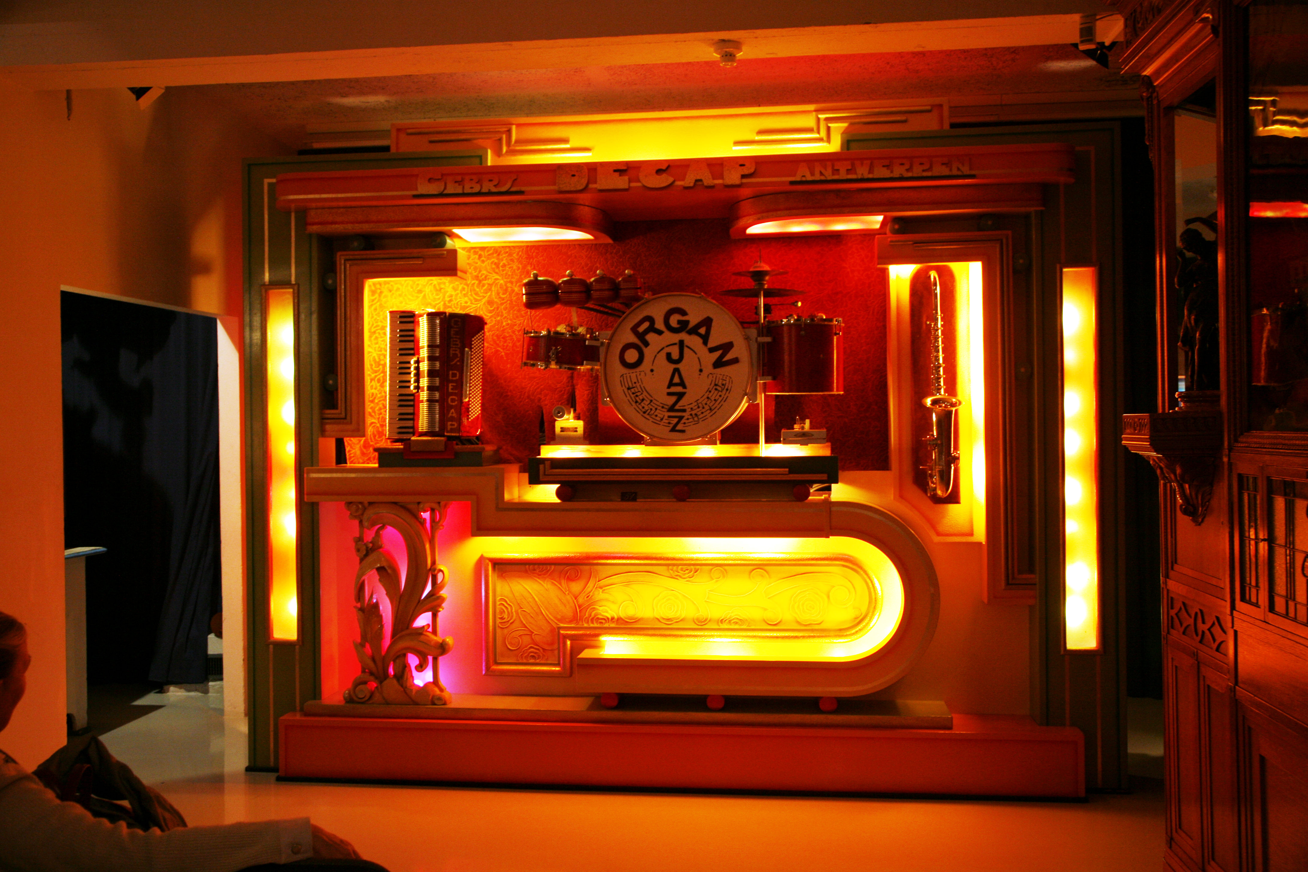 Musée Baud